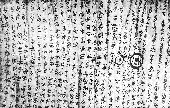 Tengu apology letter to abbot of Butsugen-ji